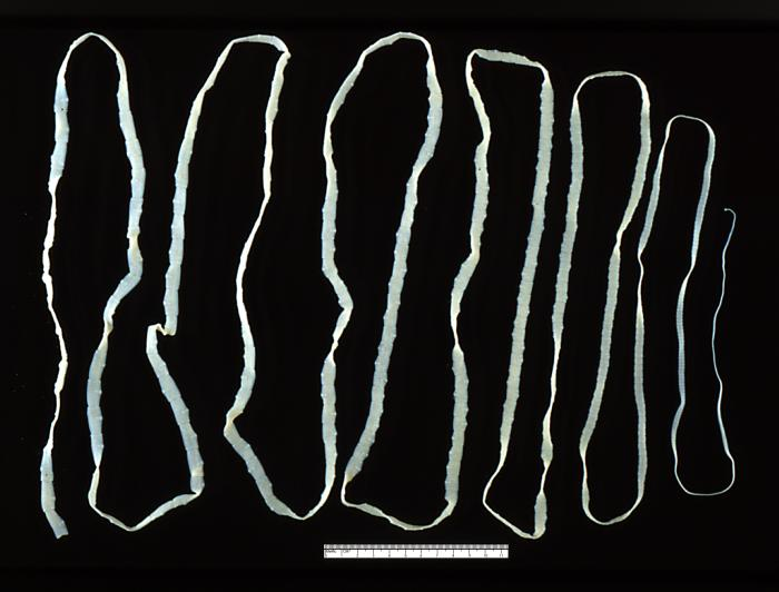 ID#: 5260 Description: This is an adult Taenia saginata tapeworm. Humans become infected by ingesting raw or undercooked infected meat. In the human intestine, the cysticercus develops over 2 mo. into an adult tapeworm, which can survive for years, attaching to, and residing in the small intestine. Content Providers(s): CDC Creation Date: 1986 Copyright Restrictions: None - This image is in the public domain and thus free of any copyright restrictions. As a matter of courtesy we request that the content provider be credited and notified in any public or private usage of this image.